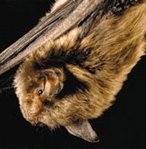 This original of this image of the endangered Indiana bat (Myotis sodalis) is found at: [1] It is specifically captioned "USFWS photo."